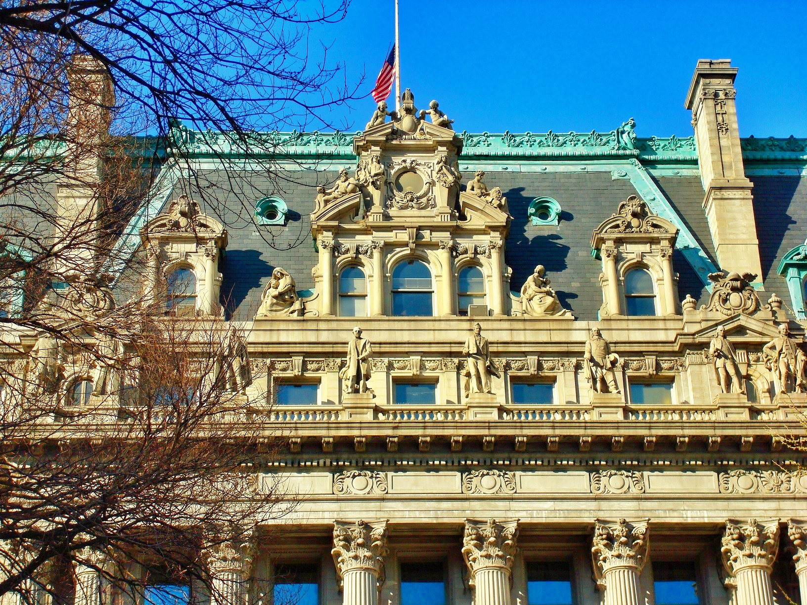 Surrogate Court Building located in Civic Center in the borough of Manhattan, New York City.